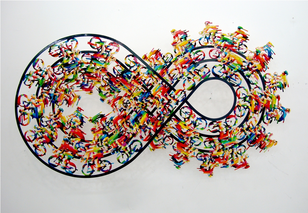 A work by Israeli artist David Gerstein